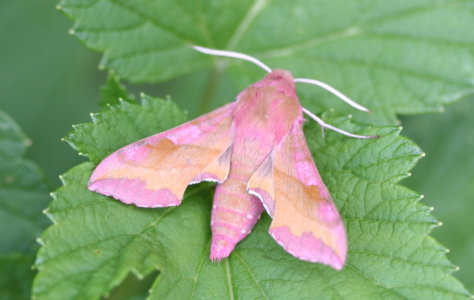 Deilephila porcellus 30 July 2006 IJmuiden, the Netherlands